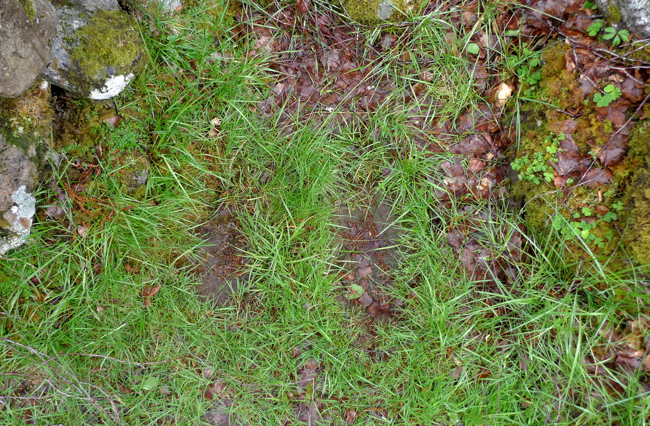 Detail of the Glenmoriston Footprints, taken in June 2010